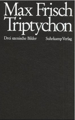 Book cover of Max Frisch "Triptychon" 1978